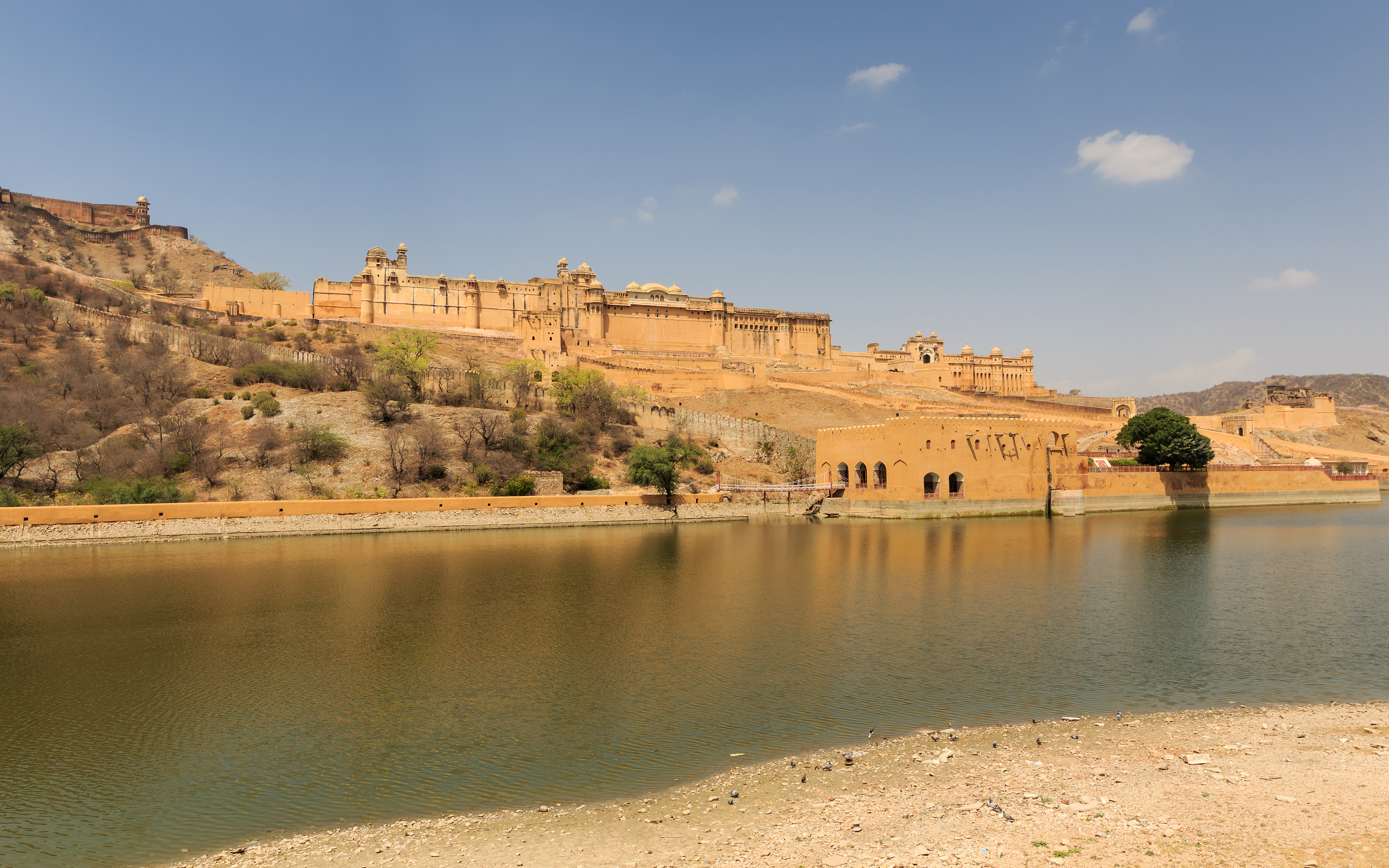 Amber Fort in Jaipur, India